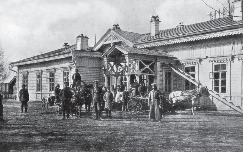 Ob Station (current Novosibirsk-Glavny) in the 1900s, Novonikolayevsk (current Novosibirsk), Russian Empire. View from Vokzalnaya Street (current Shamshurin Street).